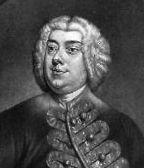 Paul de Lamerie (1788-1751)